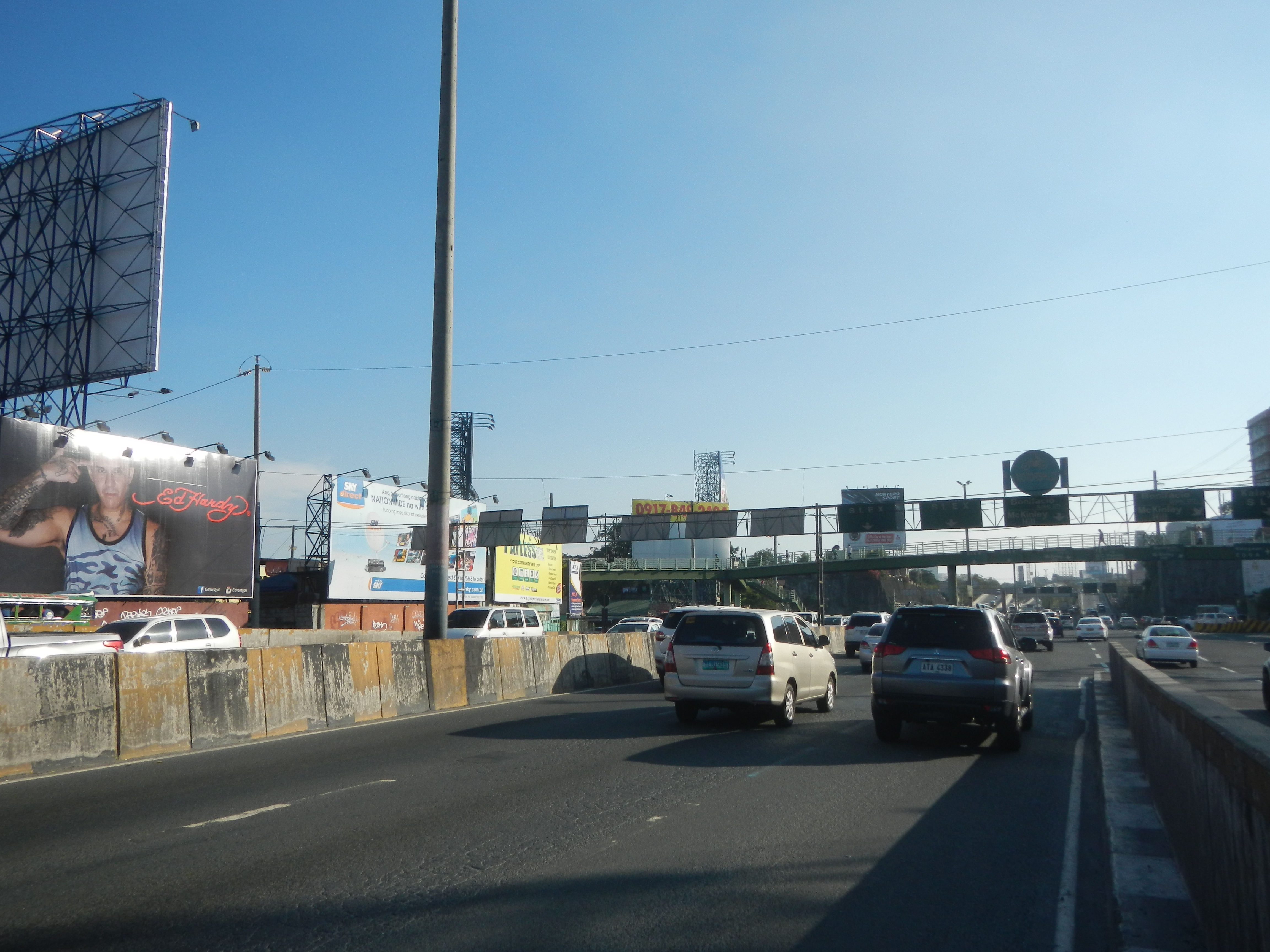 Circumferential Road 5–Kalayaan Avenue Interchange Elevated U-Turn Turnaround (road) Intersection (road) interconnecting with Pasig - Makati Bridge - C-5 Road Pasig & Makati Highway Boundary Monuments KM Sta. 11.006 20 metric tons load limit interconnecting with C-5 Pasig Boulevard Flyover (C-5 Road, C-5 Vargas Centennial Bridge, 1998) Philippine- Japan Cooperation Project President Garcia National (C-5) Road and Pasig Boulevard corner E. Rodriguez, Jr. Avenue from Makati City Tunnel in East Rembo, Kalayaan Avenue Kalayaan Avenue in the List of barangays of Metro Manila, Legislative districts of Makati, East Rembo 14°33'11"N 121°3'42"E Makati City from EDSA–Kalayaan Flyover Kalayaan Flyover Circumferential Road 5 Gil Puyat Avenue EDSA (Road) towards Morning Star Milling Corporation 14°33'44"N 121°1'28"E Pasig City 14°34'2"N 121°3'57"E Pasig Boulevard (R-5) Eulogio Rodriguez Jr. Avenue (C-5) 14°35'20"N 121°4'47"E en: Rodriguez Jr. Avenue (C-5) in the List of barangays of Metro Manila, Barangay Bagong-Ilog 14°34'3"N 121°4'10"E Pasig City surrounded by Estero de Pasig or Bitukang Manok Creek upon Rio de Pasig Linear Park; along Caruncho Avenue corner M. H. del Pilar Street corner Dr. Sixto Antonio Avenue to C. Raymundo Avenue corner Pasig Boulevard Extension to Pasig Boulevard connected by Vargas Bridge over Pasig River Radial Road 5 Circumferential Road 5 to Shaw Boulevard (Note: Judge Florentino Floro, the owner, to repeat, Donor Florentino Floro of all these photos hereby donate gratuitously, freely and unconditionally all these photos to and for Wikimedia Commons, exclusively, for public use of the public domain, and again without any condition whatsoever).